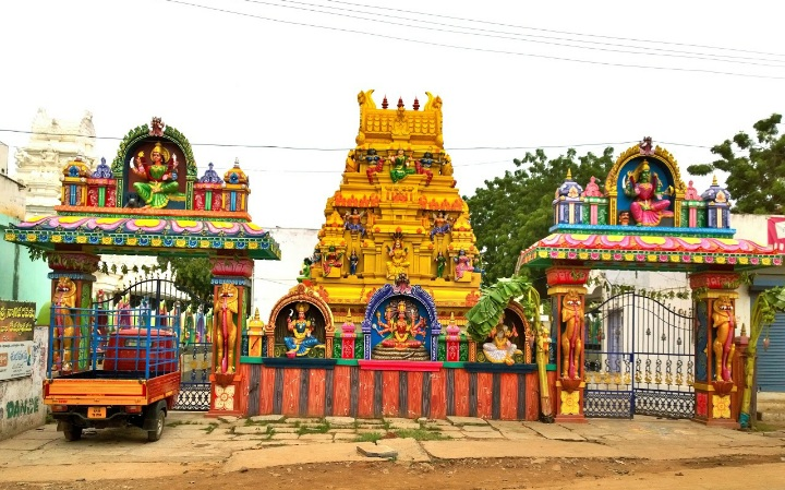 Kovur town (grama devatha).